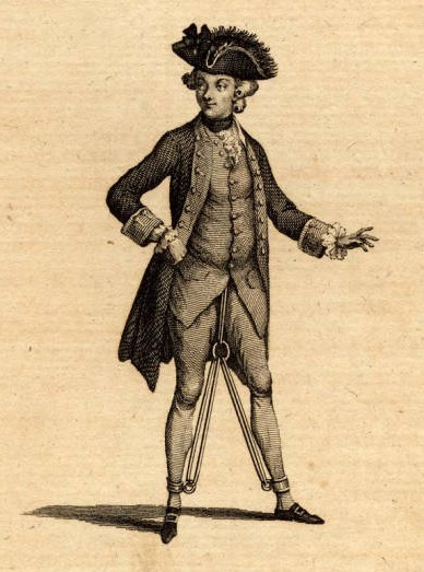 Portrait of the Irish contralto Margaret Kennedy (also known as Margaret Farrell) in costume as Captain Macheath in a 1777 production of The Beggar's Opera.